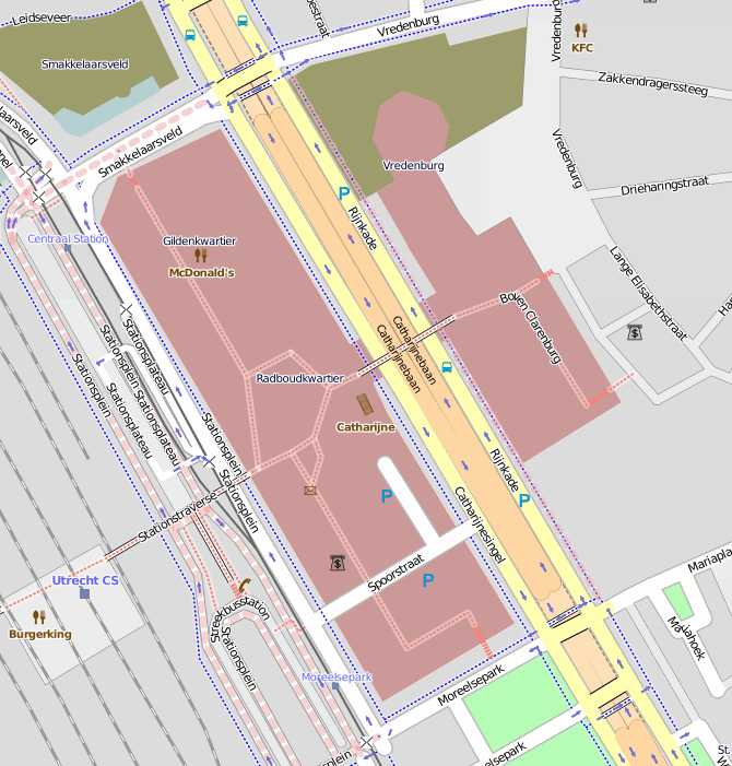 This map may be incomplete, and may contain errors. Don't rely solely on it for navigation.